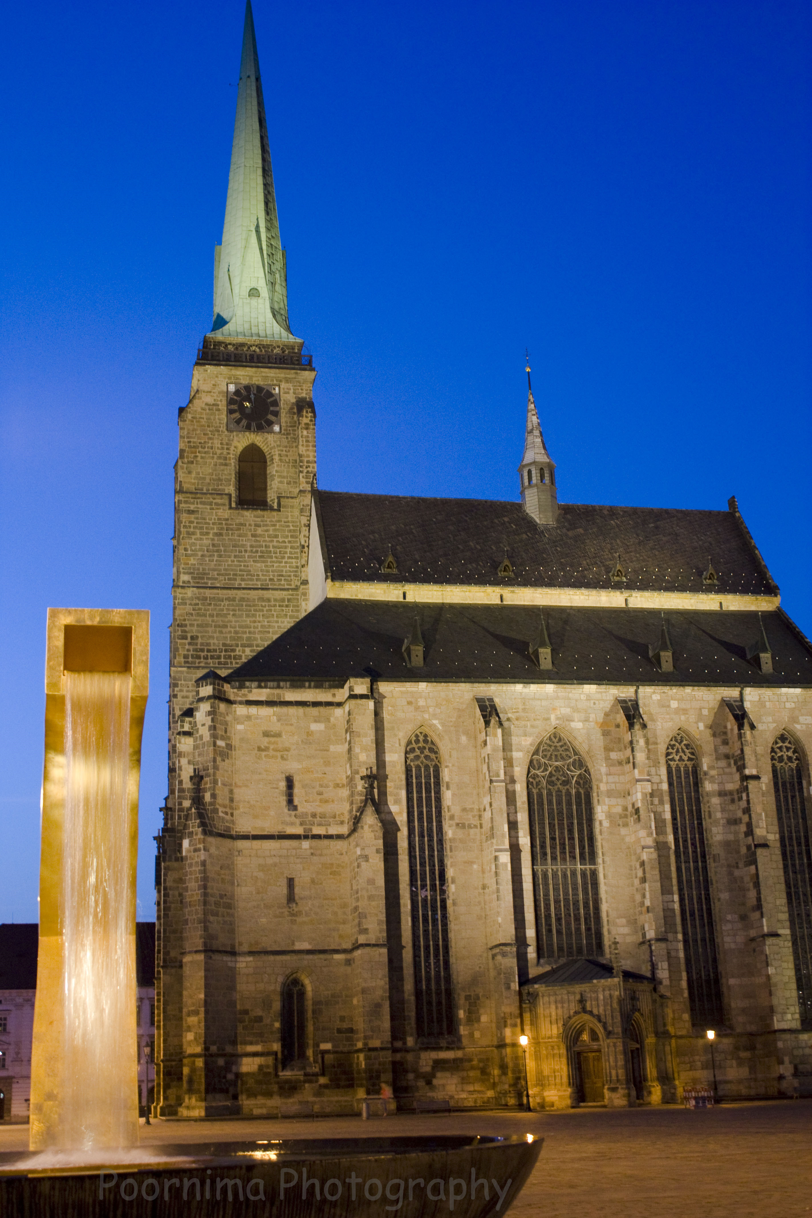 A work of modern art and the ancient church at Pilsen